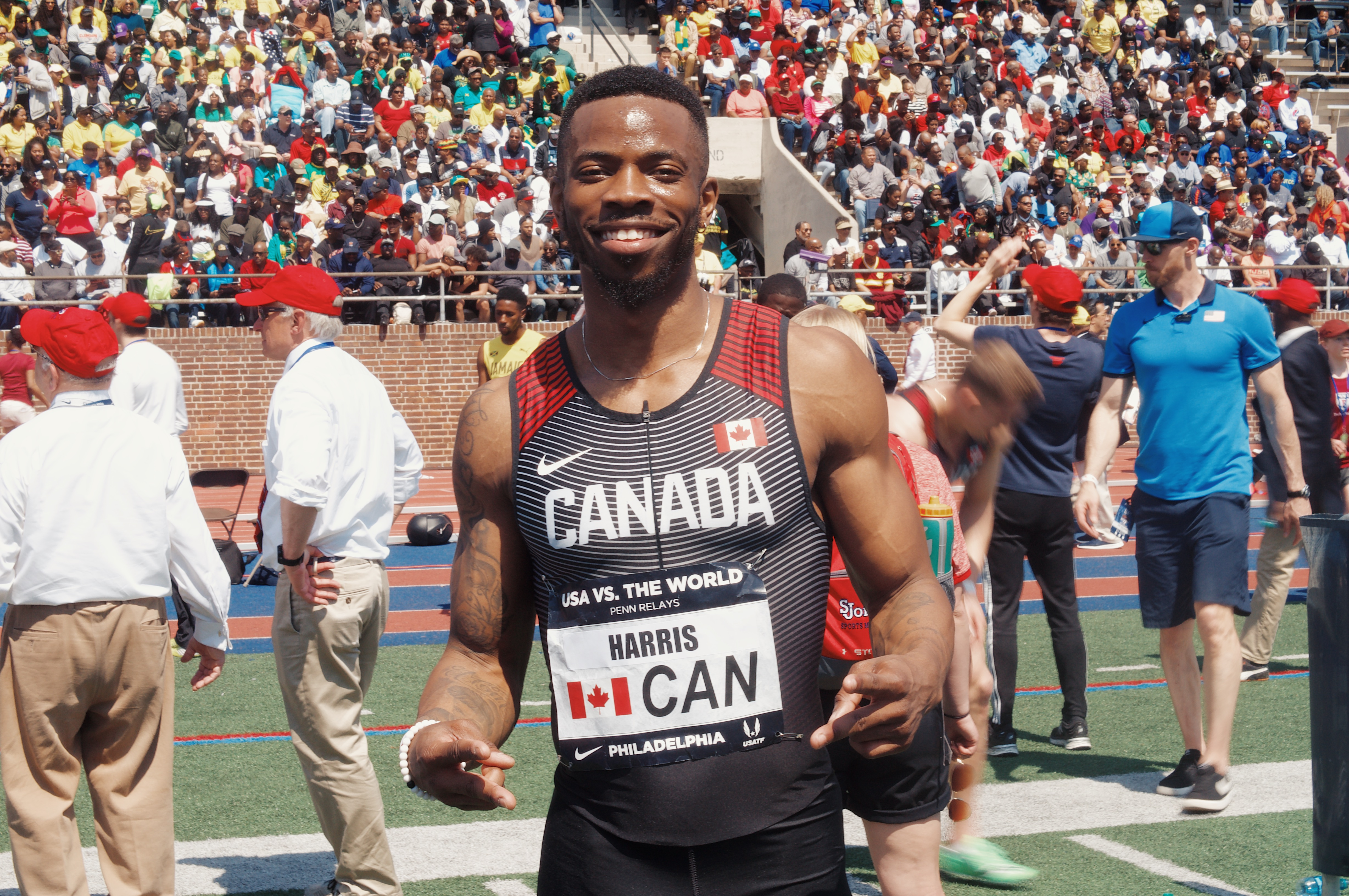 Tremaine Harris poses for a picture at the 2018 Penn Relays